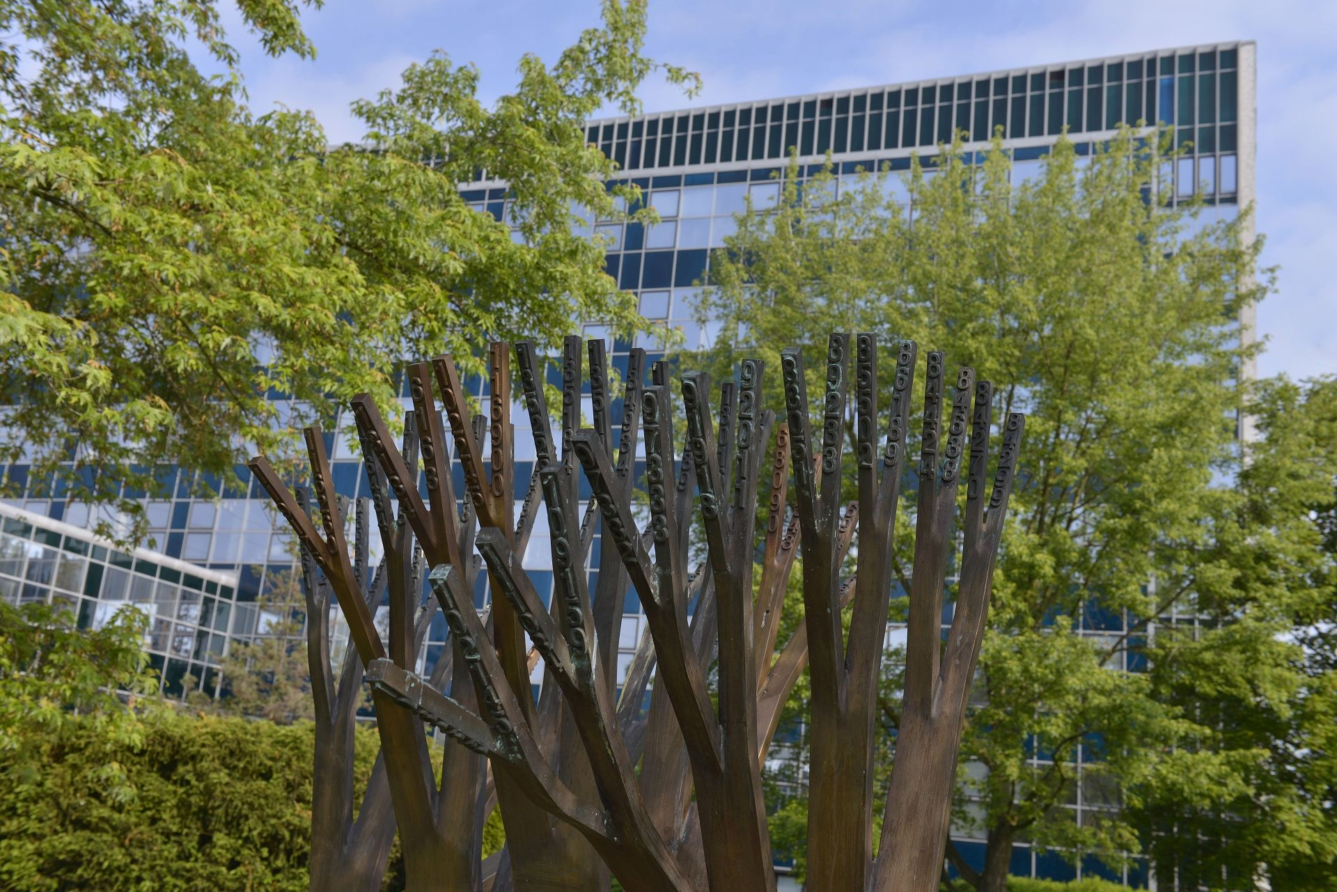 Ustav makromolekularni chemie